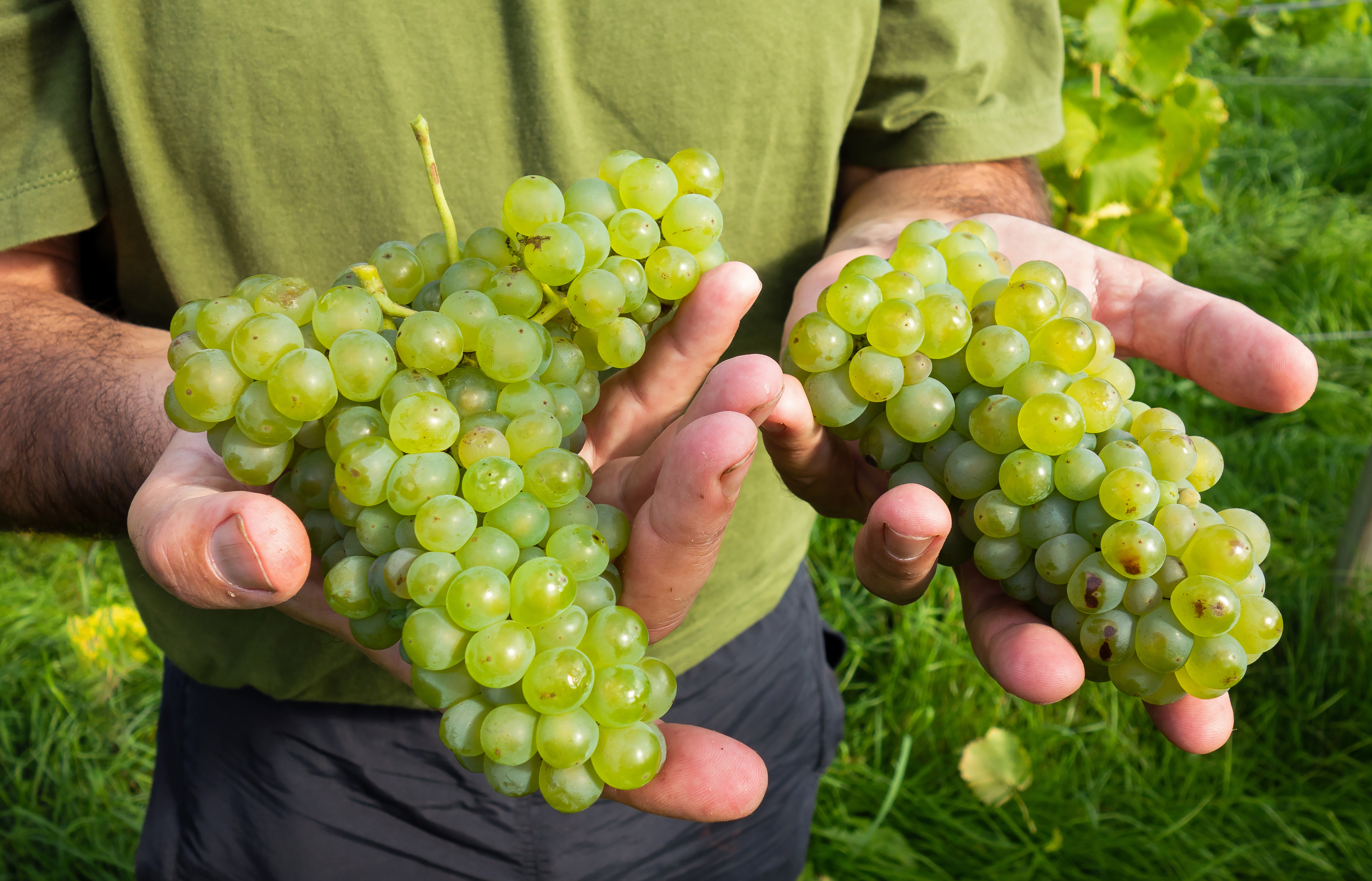 Javier Gonzalez Amador, one of the owners of Chateaux Luna vineyard in Lysekil, Sweden, shows some of the grapes harvested in 2018. Due to the long and hot summer, the year produced a good harvest.